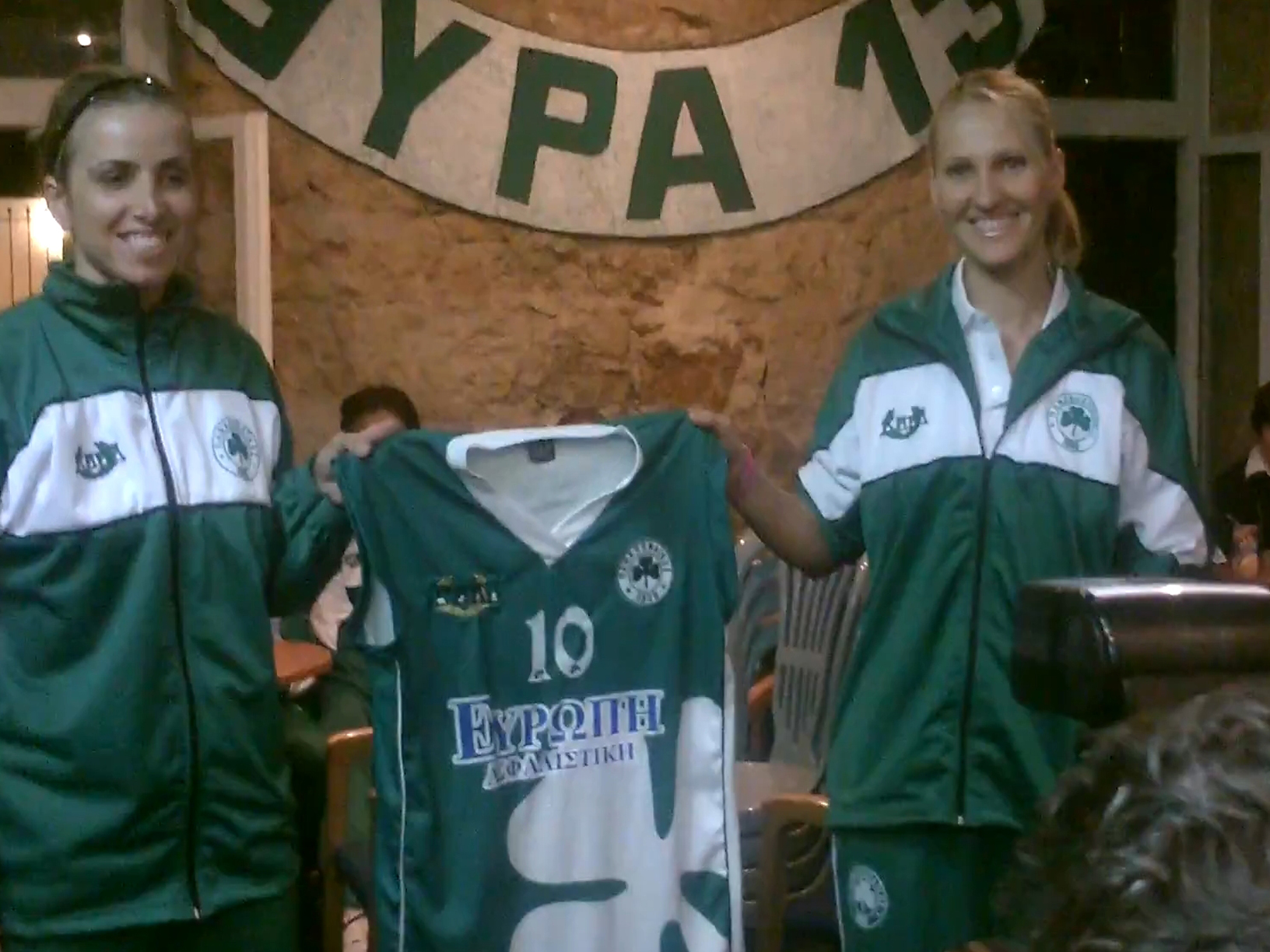 Katerina Spathari - Dimitra Havale